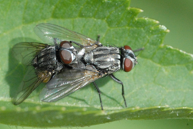 Picture taken in Commanster, Belgian High Ardennes . Species: Musca autumnalis couple